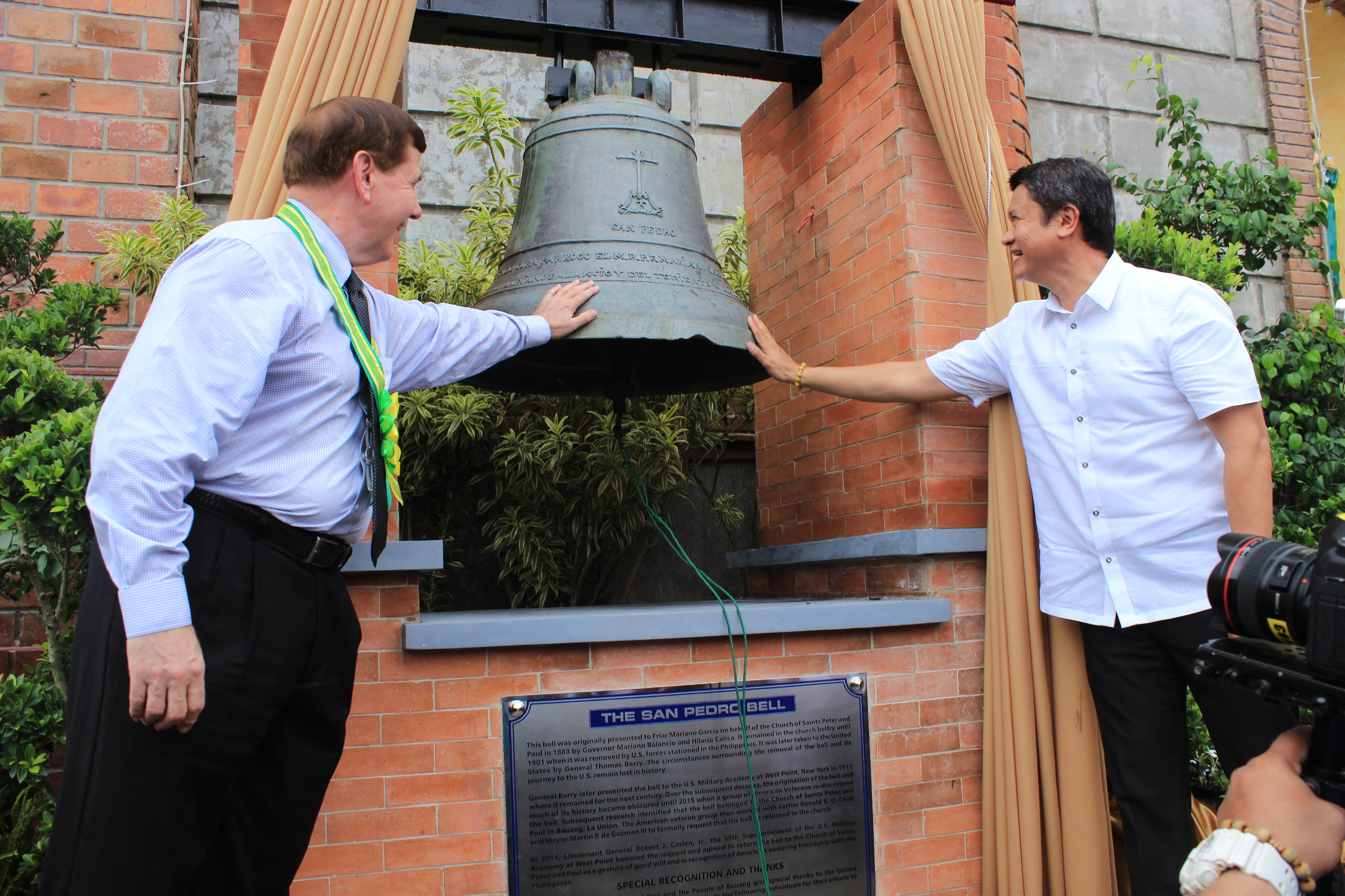 Retired US Navy Captain Dennis Wright (left) and Bauang, La Union town Mayor Martin de Guzman (right) touch the San Pedro bell during repatriation ceremonies at the Saints Peter and Paul Parish Church, Bauang, La Union, Philippines on 23 May 2016.